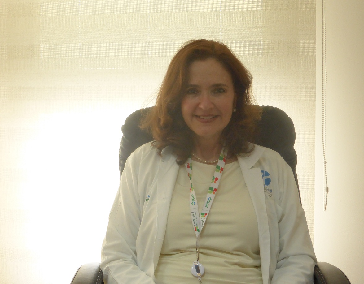 Prof. Emmilia Hodak, Head of the Department of Dermatology, Rabin Medical Center; Professor of Medicine, Tel Aviv University.